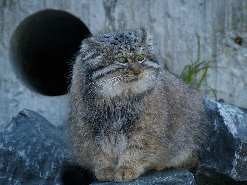 A manul (felis manul) in the Zoo Zurich